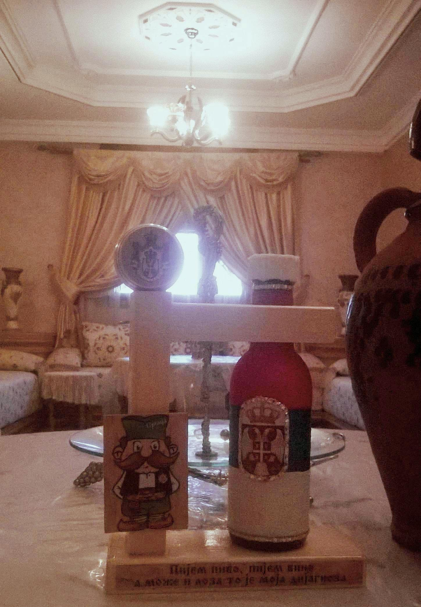 Rakija or Rakia in special bottle, as the national drink of Serbia